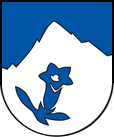 Coat of arms of Vysoké Tatry, Slovakia